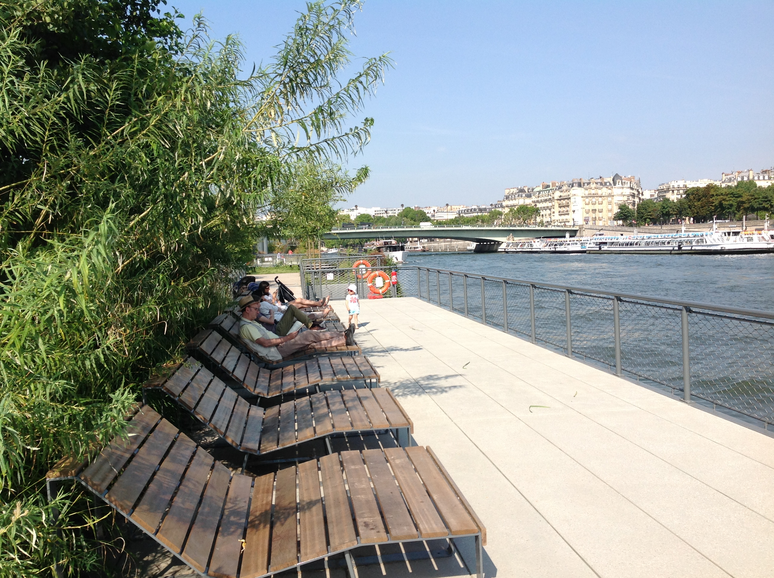 One of the floating "islands" of the Promenade des Berges de la Seine between the Pont de l'Alma and Musee d'Orsay in Paris.